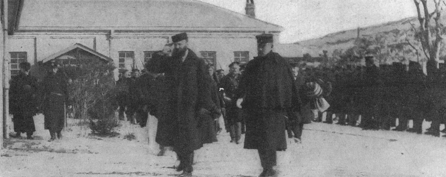 Russian Envoy Pavlov and Japanese General Kousuke Ijiji in Seoul.